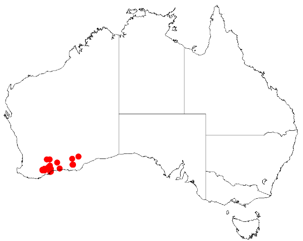 Scaevola argentea Occurrence data downloaded from Australasian Virtual Herbarium on 12 May 2019